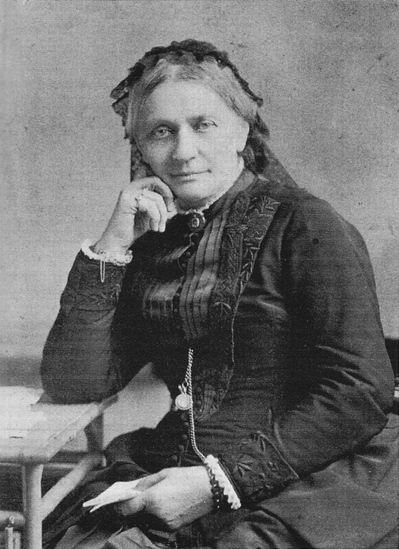 Clara Schumann, German musician, wellknown as a composer and pianist of the Romantic era.